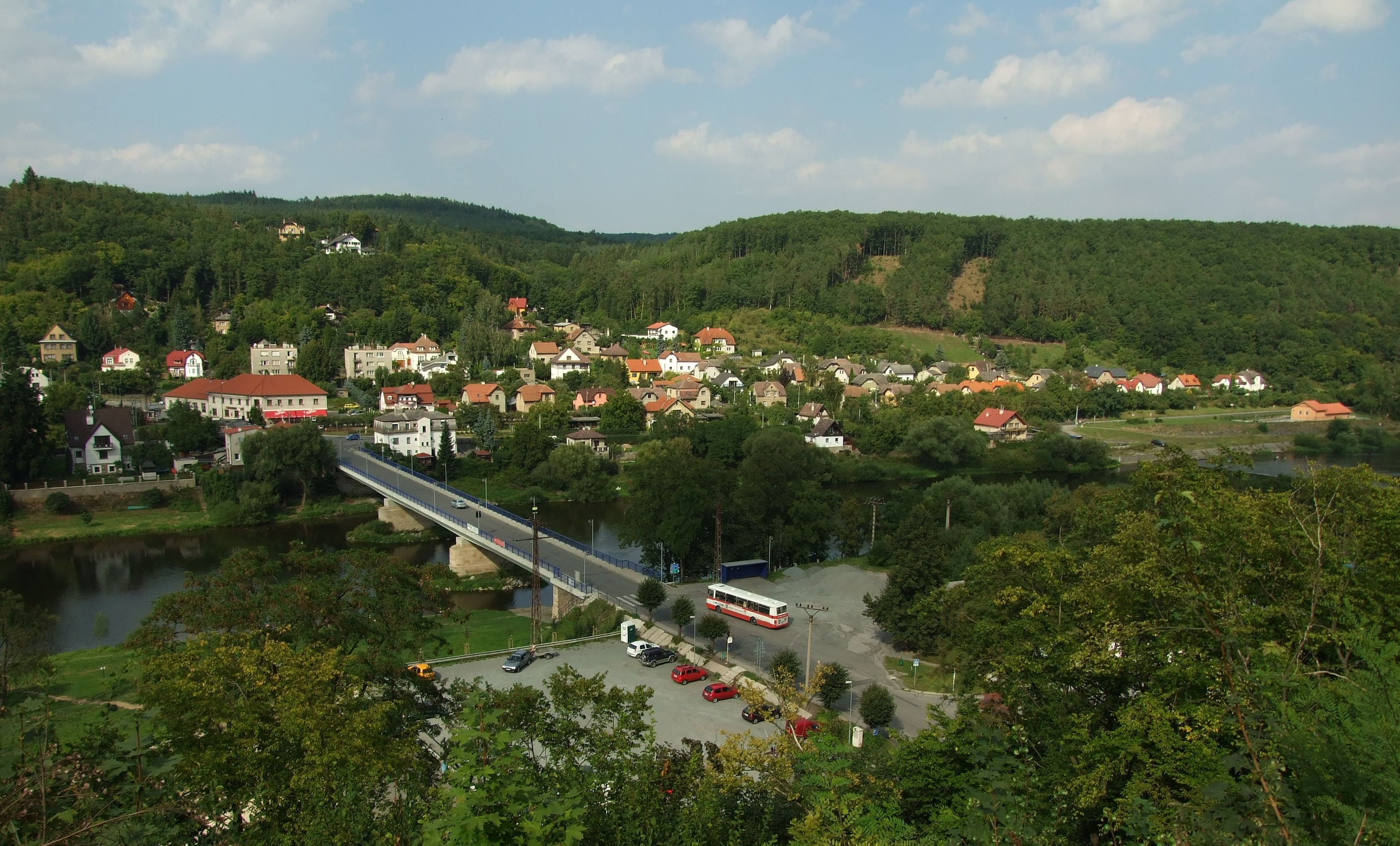 Town of Nižbor in Central Bohemian region, CZhelp